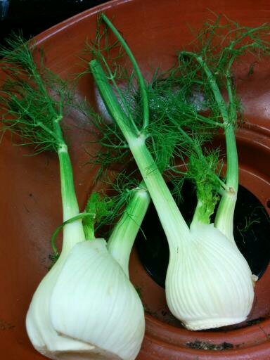 fennel (Foeniculum vulgare)